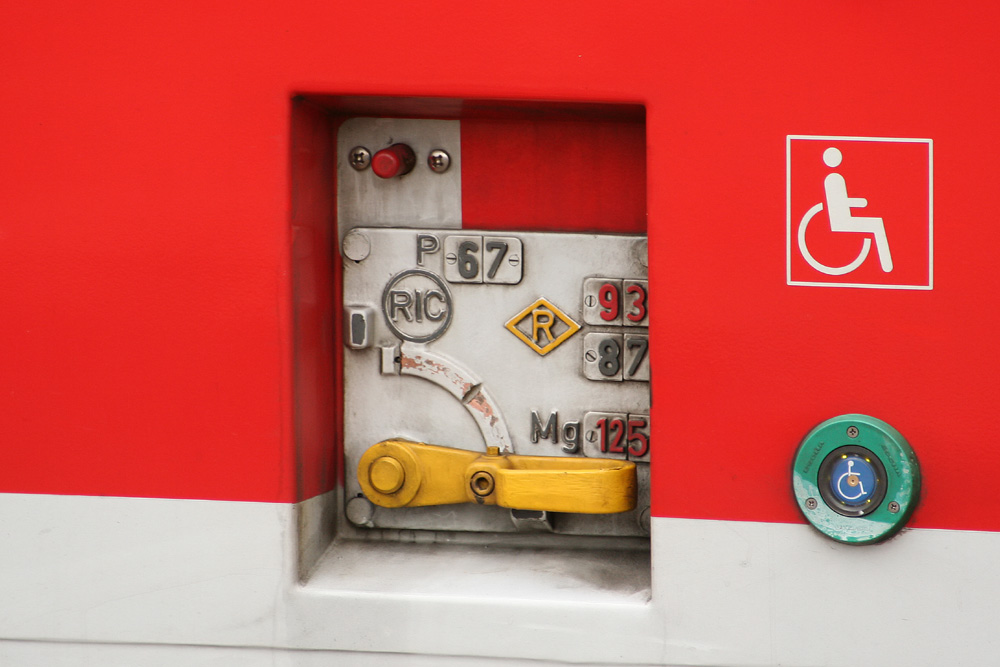 A switch to choose the brake mode at a Deutsche Bahn double-decker car.